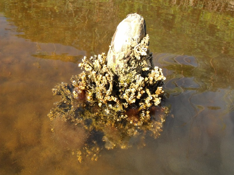 Ficopomatus enigmaticus photographed in a brackish lagoon in Grossteo province, Tuscany, central Italy. Photo by Massimiliano Marcelli.